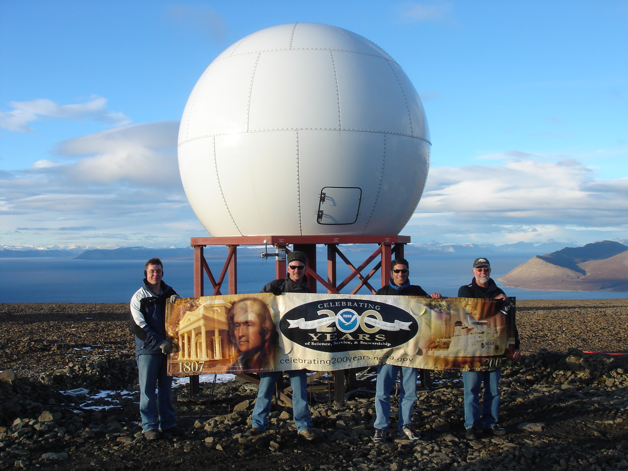 Greetings from Lonyearbyen, Norway on the Svalbard archipelago. NOAA along with NASA and other international space agencies through agreements with the Norwegian Space Agency utilizes the Kongsberg Satellite Services Svalbard Satellite Station known as SvalSat to support current and future satellite programs. At 78°13’ North latitude, SvalSat is capable of a satellite contact once every orbit for polar-orbiting satellites. The antenna in the background collects the direct readout data from NASA EOS satellites to produce NOAA's Polar Wind products in the Arctic. Pictured (from left) from the NPOESS Integrated Program Office are Jim Valenti, Doug Whiteley, Pete Wilczynski, and John Overton.